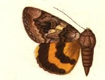 PLATE CXCIII.